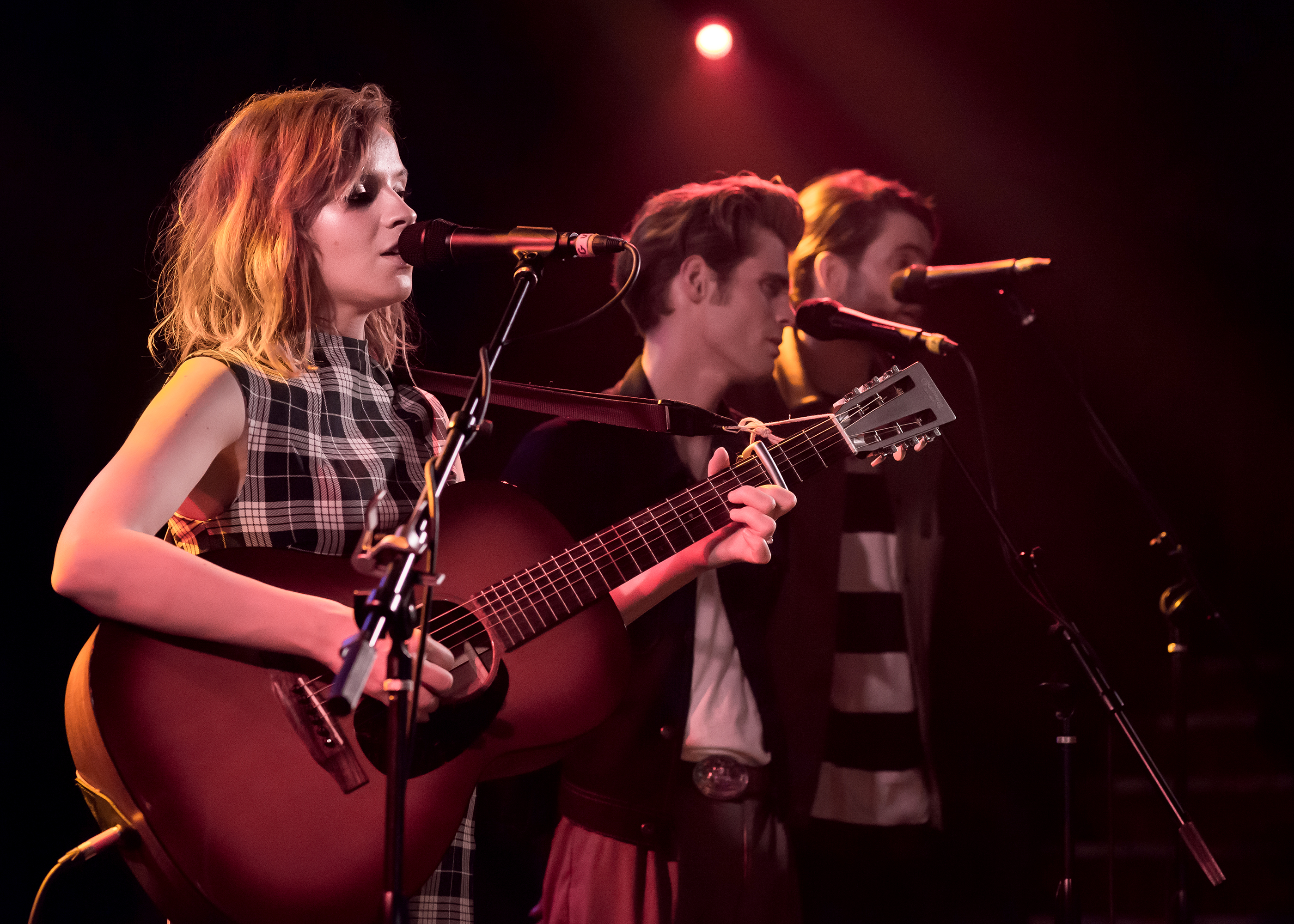 Gabrielle Aplin performing live at The Troubadour in Los Angeles, California, on Saturday, March 10, 2018.